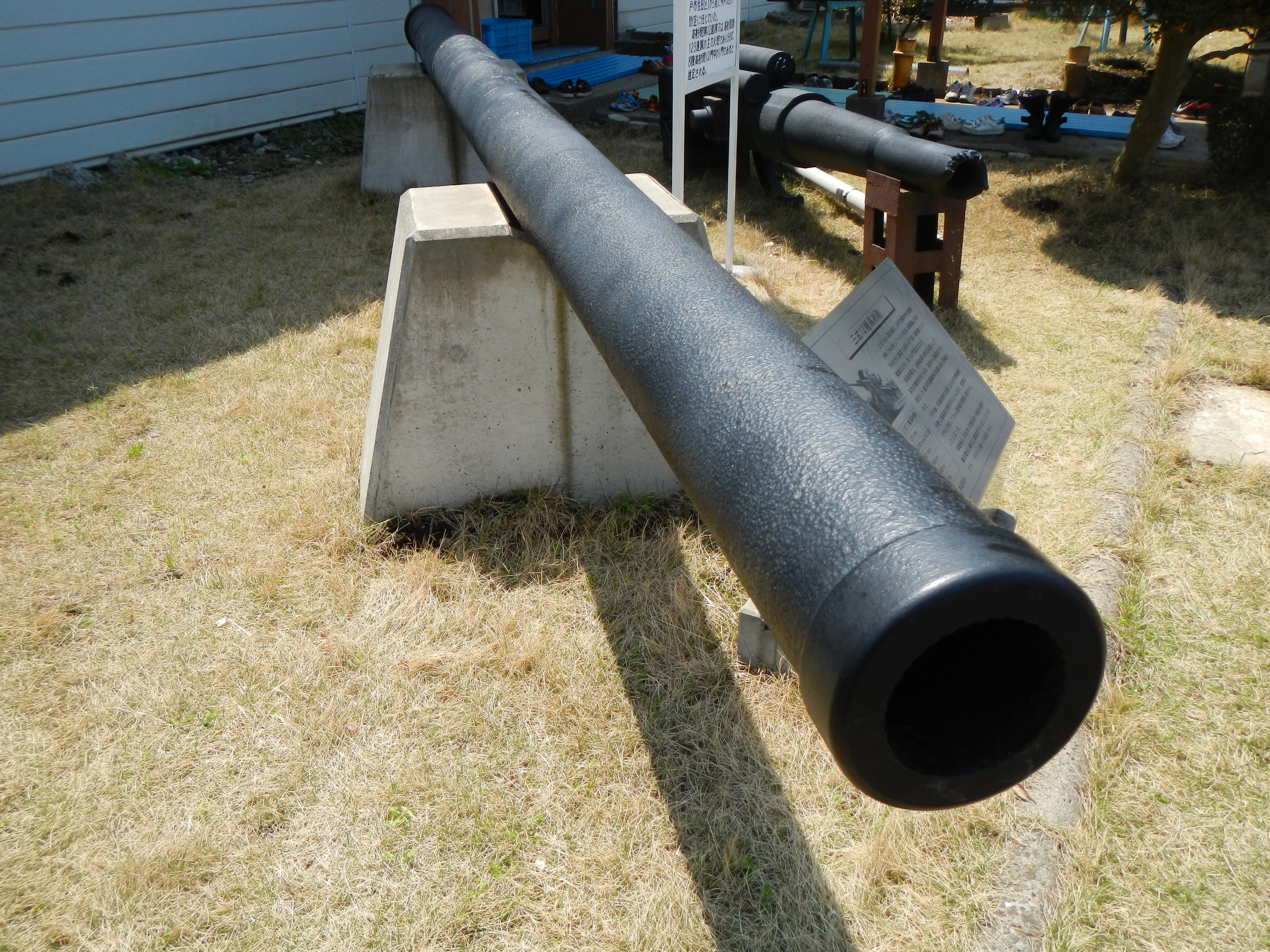 Barrel of a Type 3 12 cm Anti-Aircraft Gun of the Imperial Japanese Army.